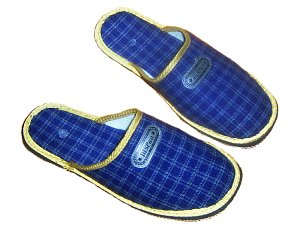 Slippers for Wiktionary Autor: Akir Foto editet in GIMP2